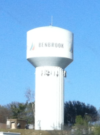 Water tower in Benbrook, Texas (newer), just north of I-20